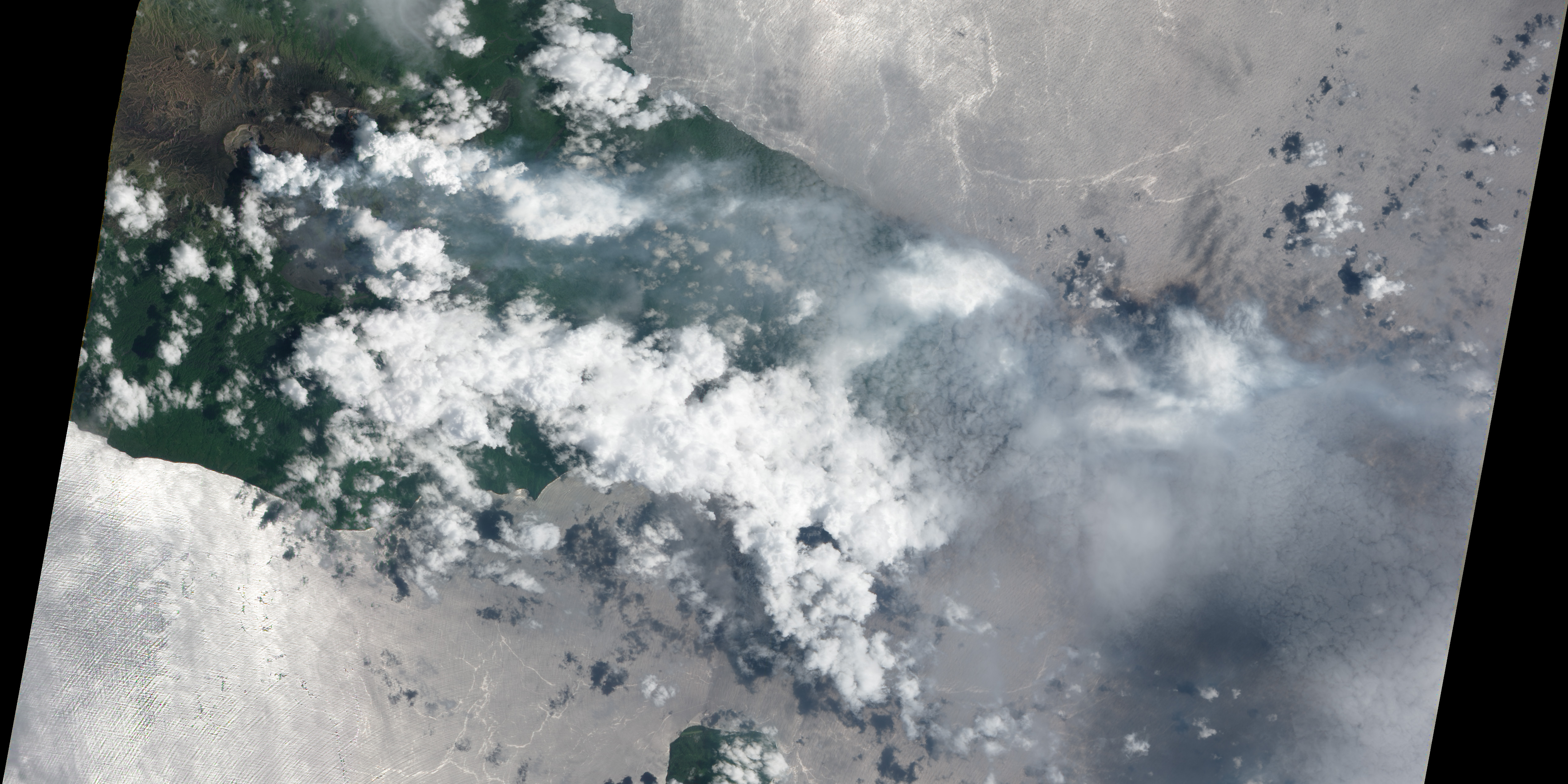 he Advanced Land Imager (ALI) aboard the Earth Observing-1 (EO-1) satellite captured this natural-color image of activity within Ambrym’s caldera on December 13, 2012. Twin lava lakes on Ambrym’s Marum cone are visible. The larger of the two, which is gray, lies within Mbuelesu crater; to the southwest, Mbuelesu has a secondary crater that contains a pinkish-gray lava lake. Active lava lakes often have a partly-solid, shiny gray crust that forms as the atmosphere cools their surfaces. The crust is rarely more than 5 to 30 centimeters (2 to 12 inches) thick and usually lasts just a few hours because it continually circulates, breaks, and sinks into the molten lava below. The pink color of the smaller lake suggests that surface was especially agitated and the crust was absent or in the process of sinking back into the lake.